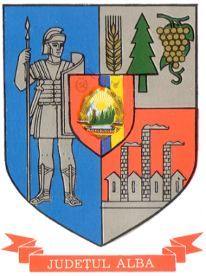 Communist coat of arms of Alba County, Socialist Republic of Romania.